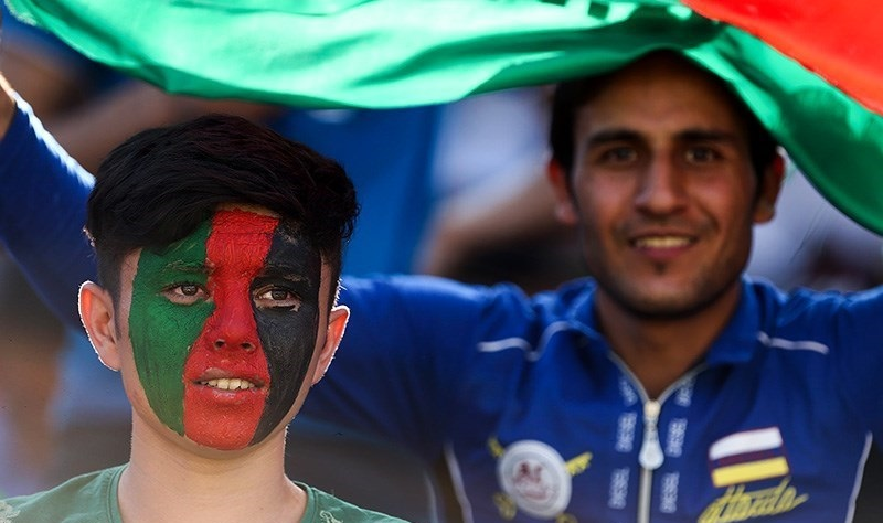 an Afghan supporter watching his team's match against Japan during 2018 FIFA World Cup qualification in Azadi Stadium, Tehran